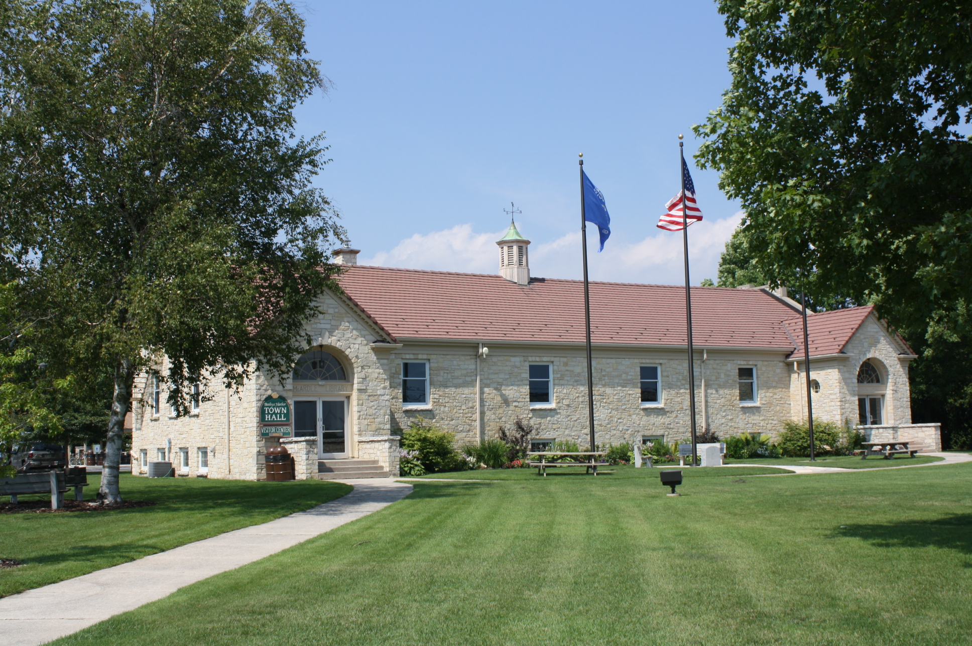 The Baileys Harbor Town Hall-McArdle Library on Wisconsin Highway 57 in Baileys Harbor, Wisconsin, listed on the national register of historic places.